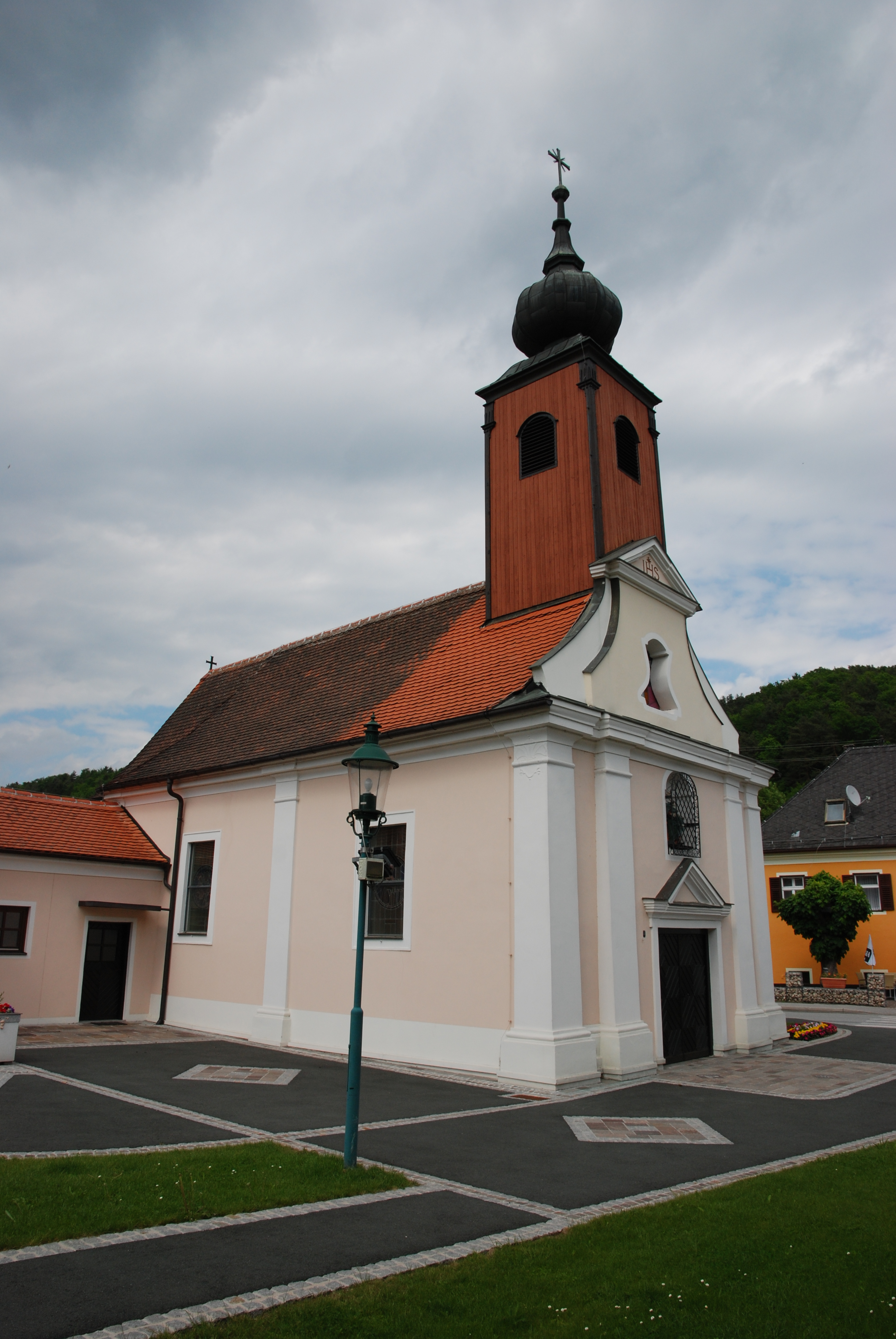 Kirche Sinnersdorf